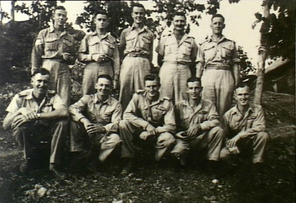 Photograph of Colin McCool, taken in April 1943, in the Laloki River Area, Port Moresby, New Guinea. McCool is front row, centre. The photo includes other members of No. 33 Squadron RAAF